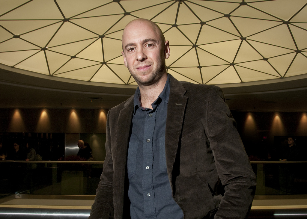 John Hamburg in 2010